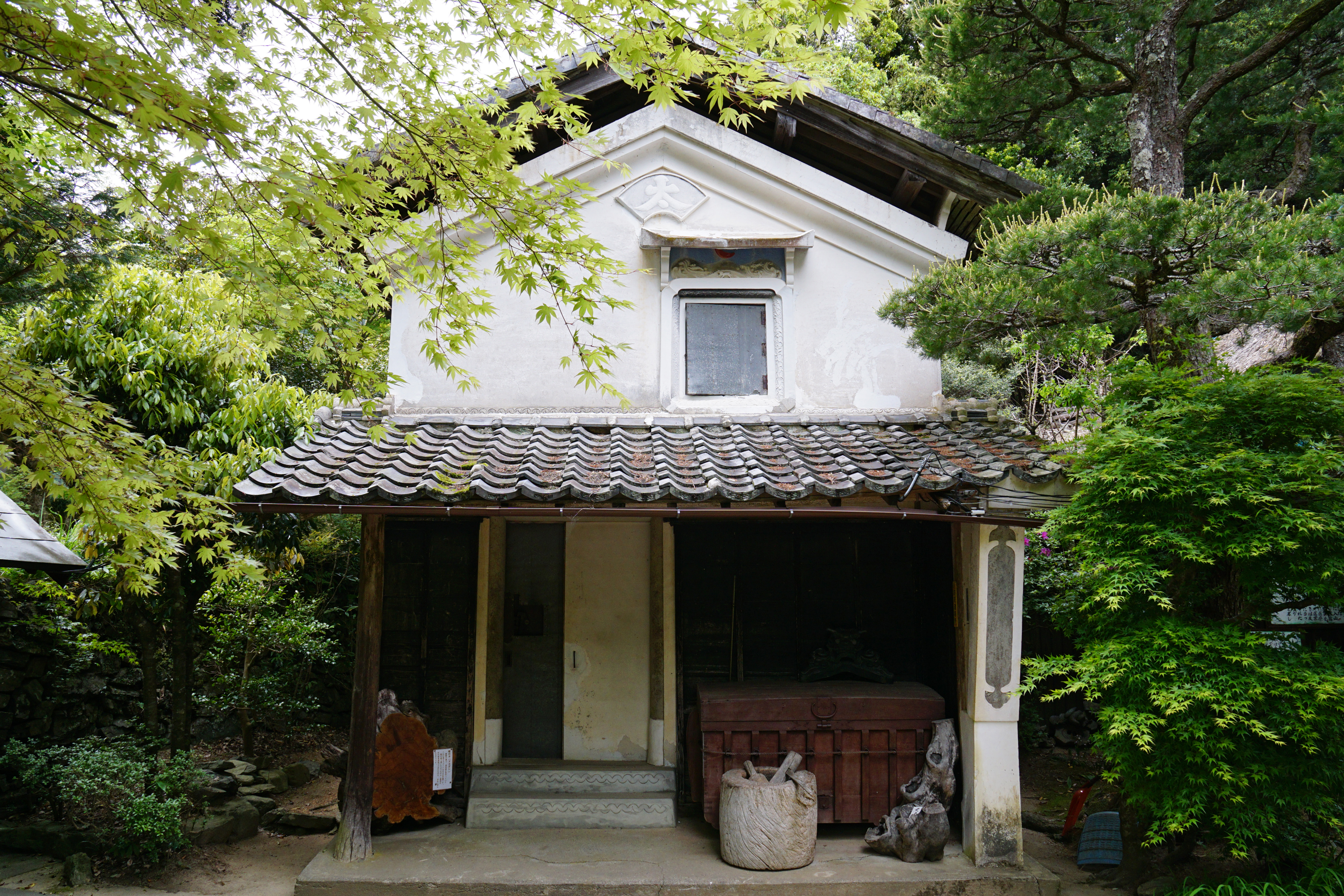 At The_Folklore_Museum_of_the_Heike_Estate in Miyoshi, Tokushima prefecture, Japan.